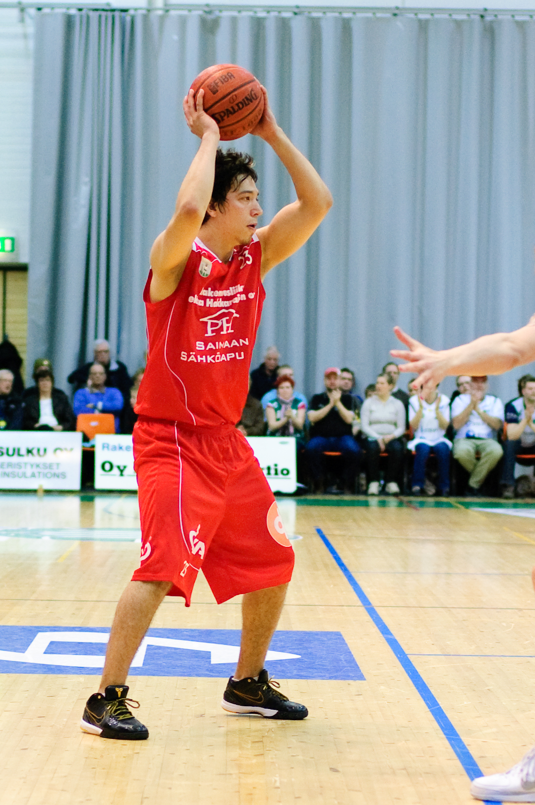 Finnish basketball player Mikko Niemi playing for Lappeenrannan NMKY against KTP-Basket at Steveco Areena in Kotka, Finland. KTP-Basket won the Finnish Basketball league playoff game 106-70 and advanced to the semi-final round by winning the series 3-0.